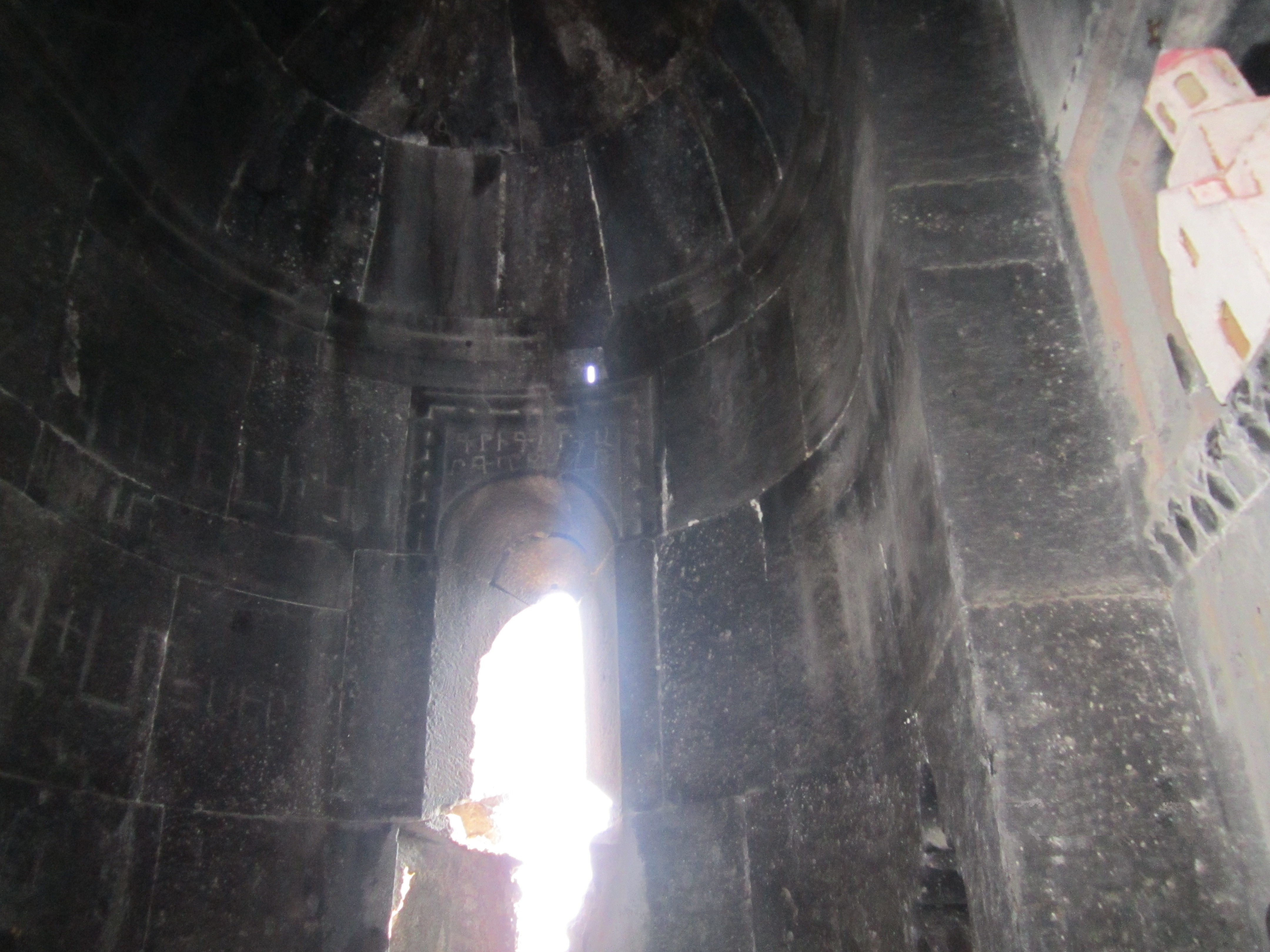 Photo by Arthur Papoyan 112/11